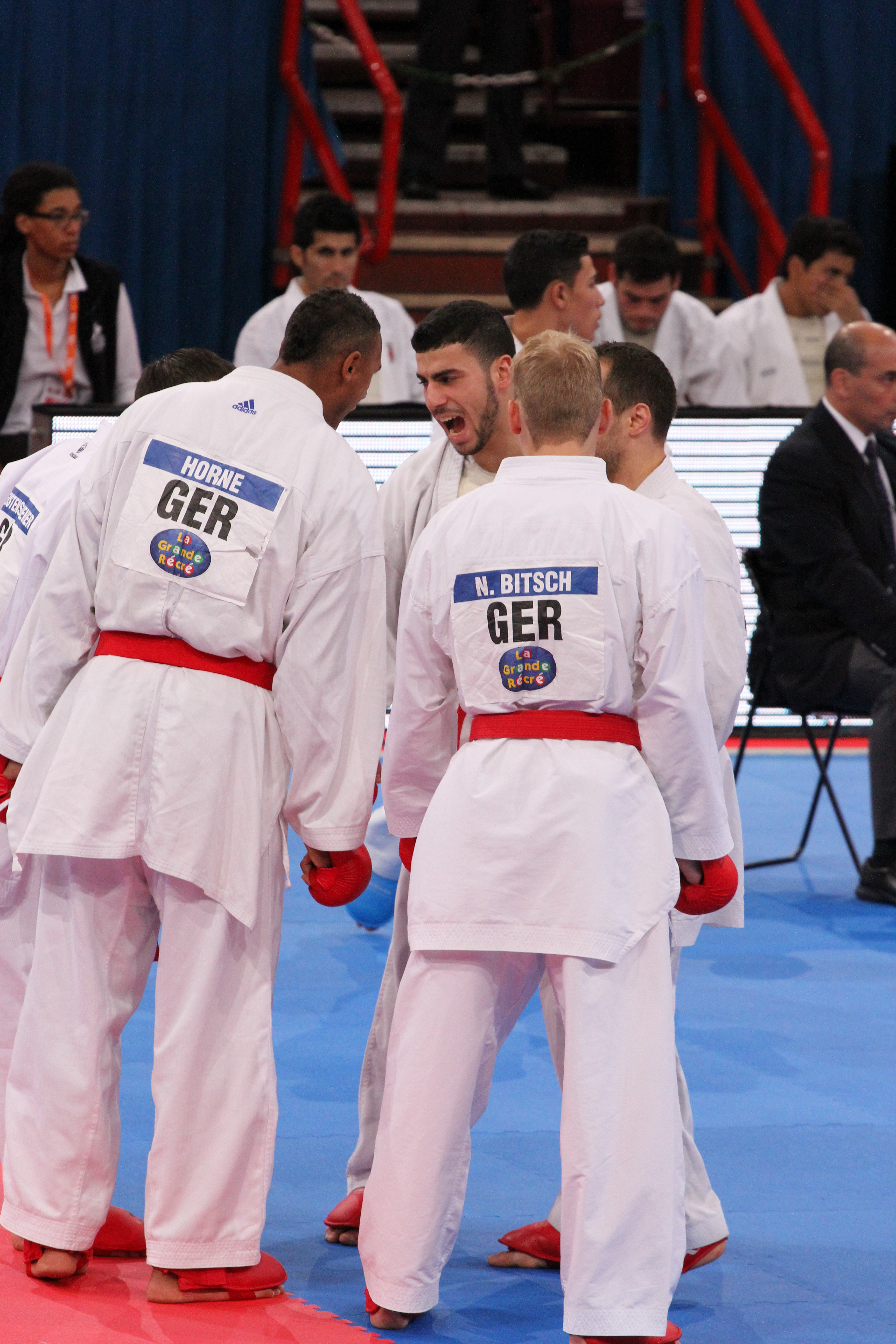 Karate world championships 2012 in Paris